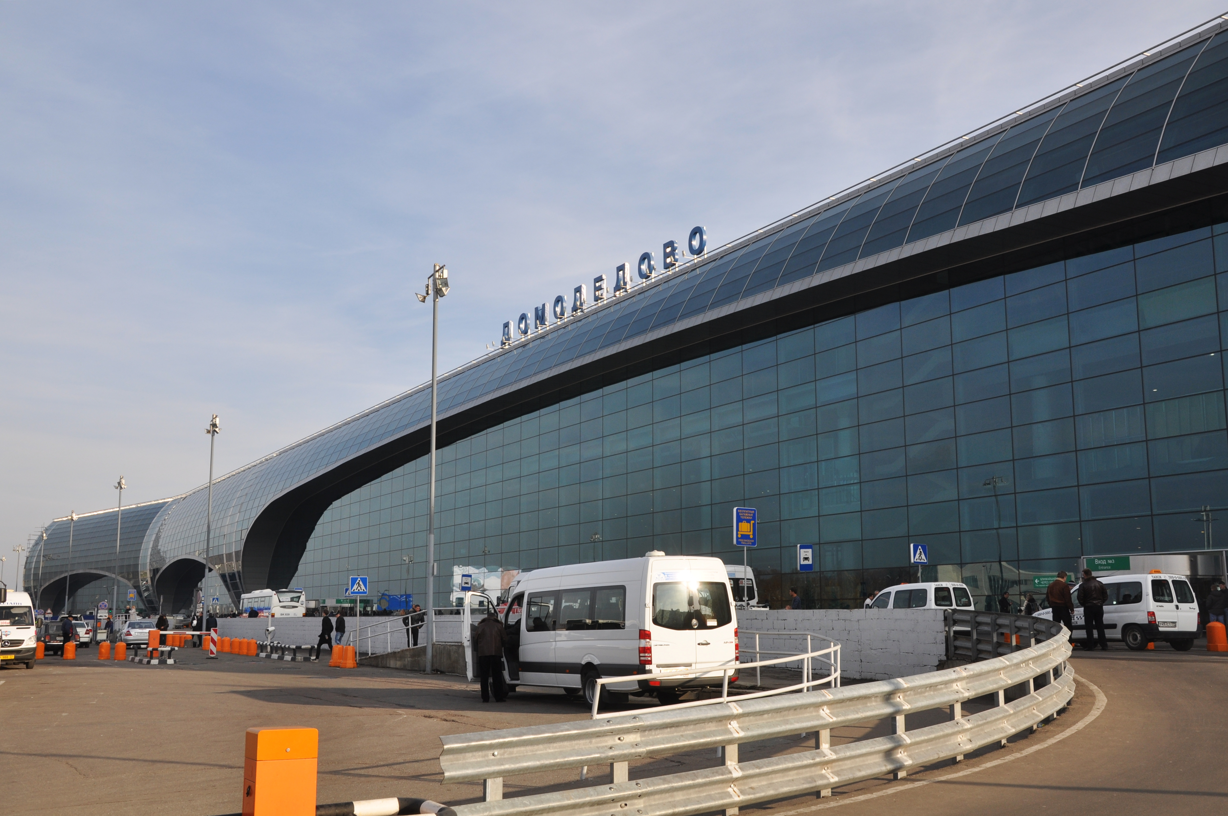 Domodedovo airport